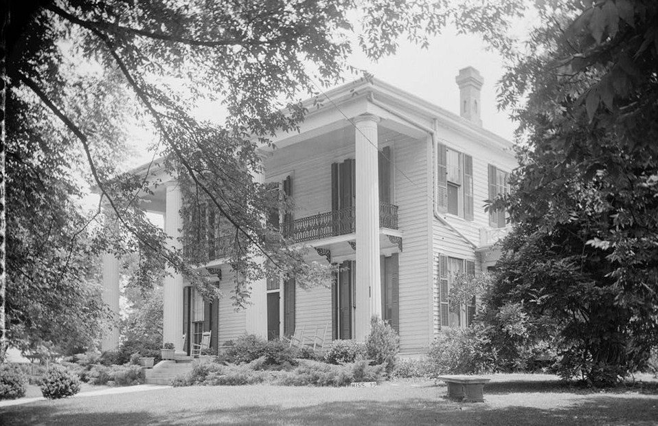 Yates House, Macon (Noxubee County, Mississippi) . Image courtesy of Historic American Buildings Survey—HABS. cropped, HABS MISS,52-MACO,6-1 This file comes from the Historic American Buildings Survey (HABS), Historic American Engineering Record (HAER) or Historic American Landscapes Survey (HALS). These are programs of the National Park Service established for the purpose of documenting historic places. Records consist of measured drawings, archival photographs, and written reports. When reusing please credit: Library of Congress, Prints & Photographs Division, MS-99 This tag does not indicate the copyright status of the attached work. A normal copyright tag is still required. See Commons:Licensing. This work is in the public domain in the United States because it is a work prepared by an officer or employee of the United States Government as part of that person’s official duties under the terms of Title 17, Chapter 1, Section 105 of the US Code. Note: This only applies to original works of the Federal Government and not to the work of any individual U.S. state, territory, commonwealth, county, municipality, or any other subdivision. This template also does not apply to postage stamp designs published by the United States Postal Service since 1978. (See § 313.6(C)(1) of Compendium of U.S. Copyright Office Practices). It also does not apply to certain US coins; see The US Mint Terms of Use. This file has been identified as being free of known restrictions under copyright law, including all related and neighboring rights. Object location33° 06′ 37″ N, 88° 33′ 28″ W